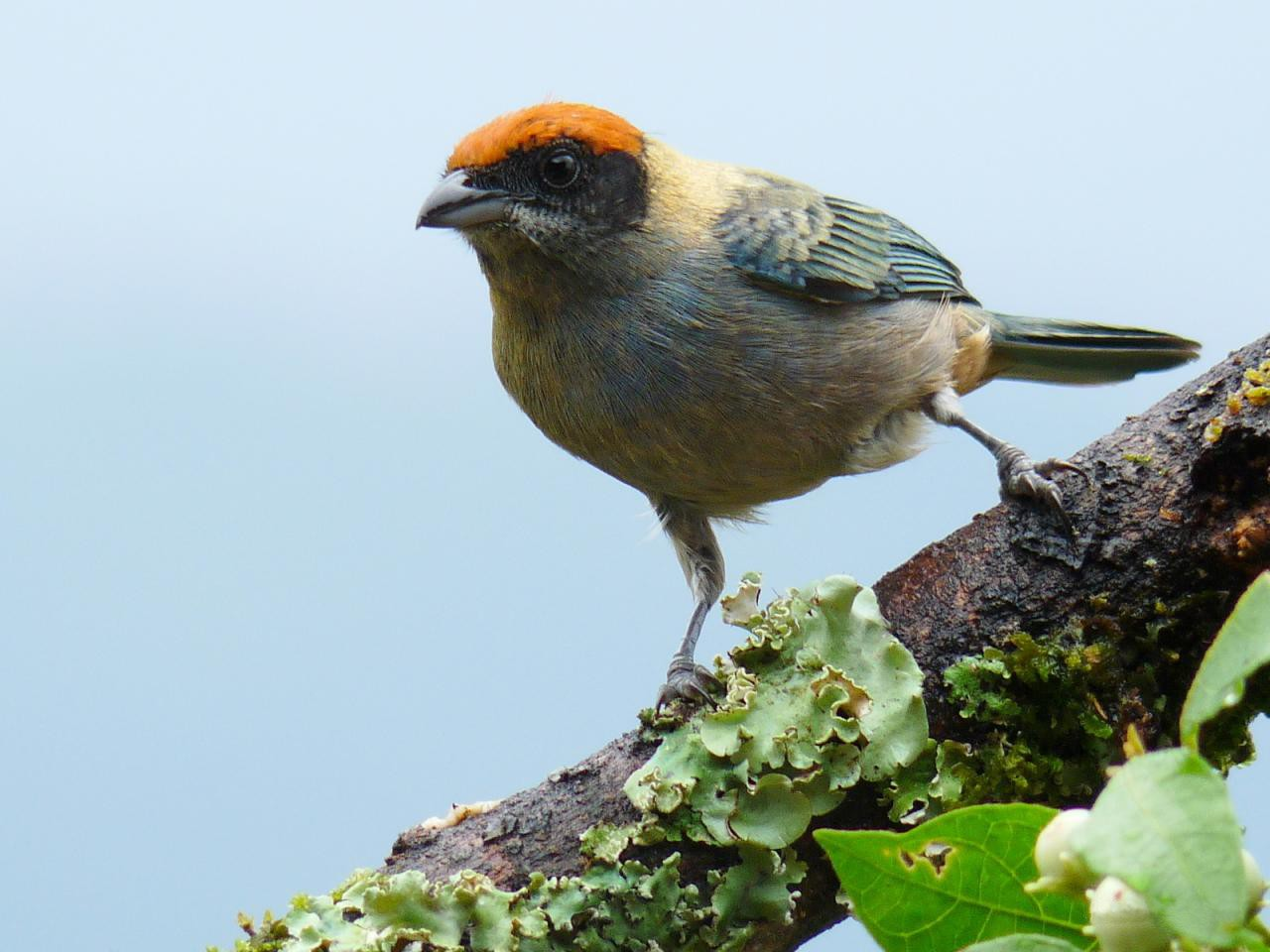 A Scrub Tanager in Manizales, Caldas, Colombia.